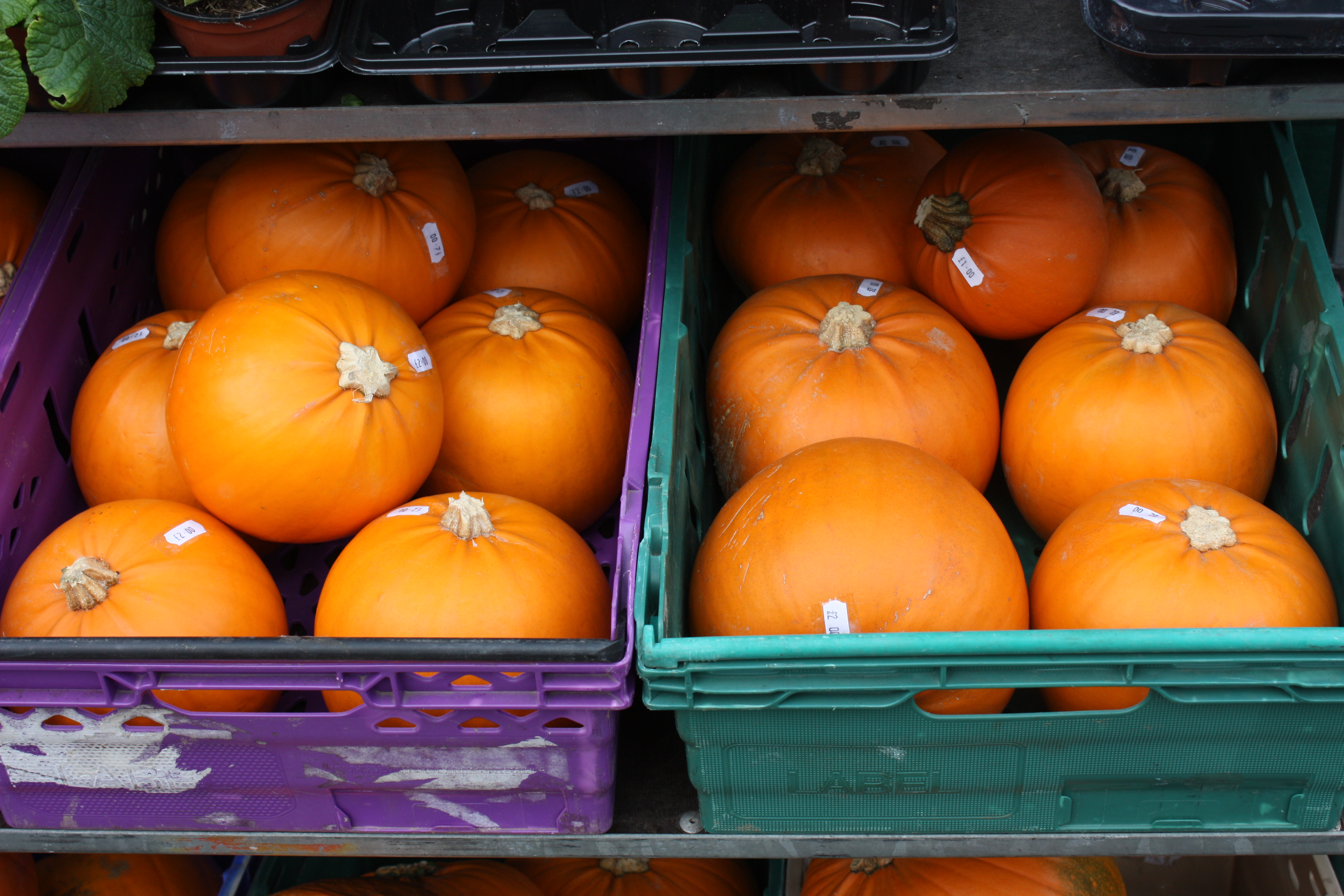 Pumpkins at ER Wilson, Fruiterer and florist, Main Street, Hillsborough, County Down, Northern Ireland, October 2010